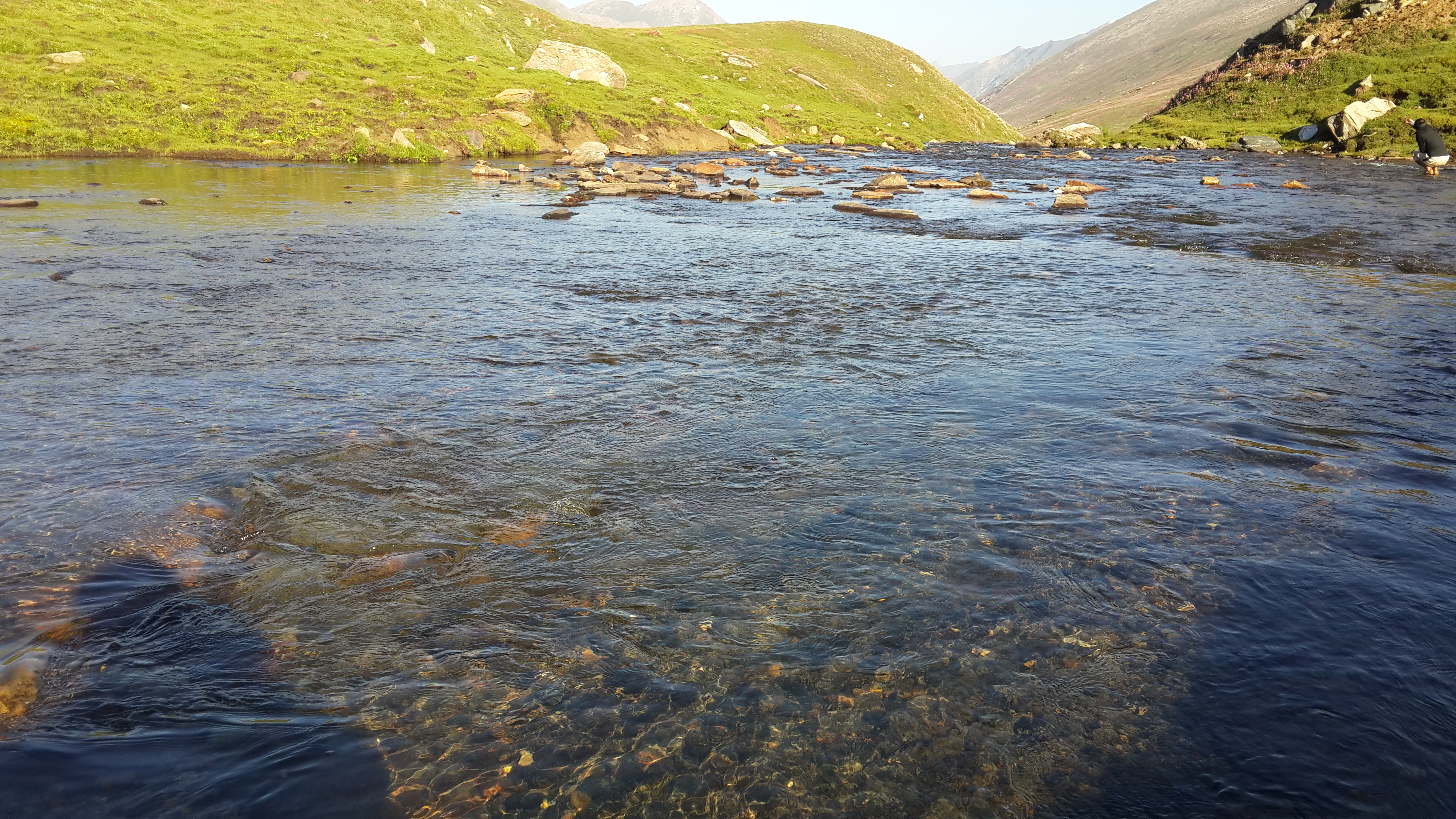 A picture of the outlet of water from the Dudipatsar Lake in Naran valley of Pakistan. The Picture is captured in natural day light and has not been artificially doctored.